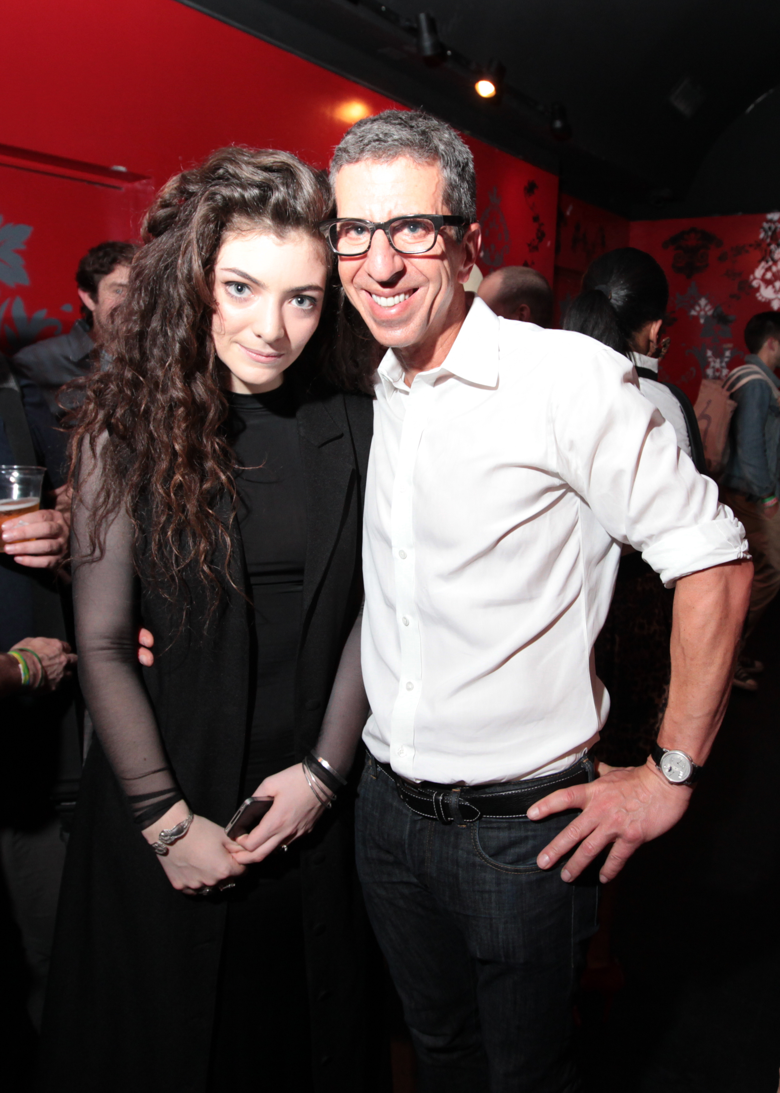 Photo of music industry executive Jason Flom with artist Lorde at art gallery in NYC.